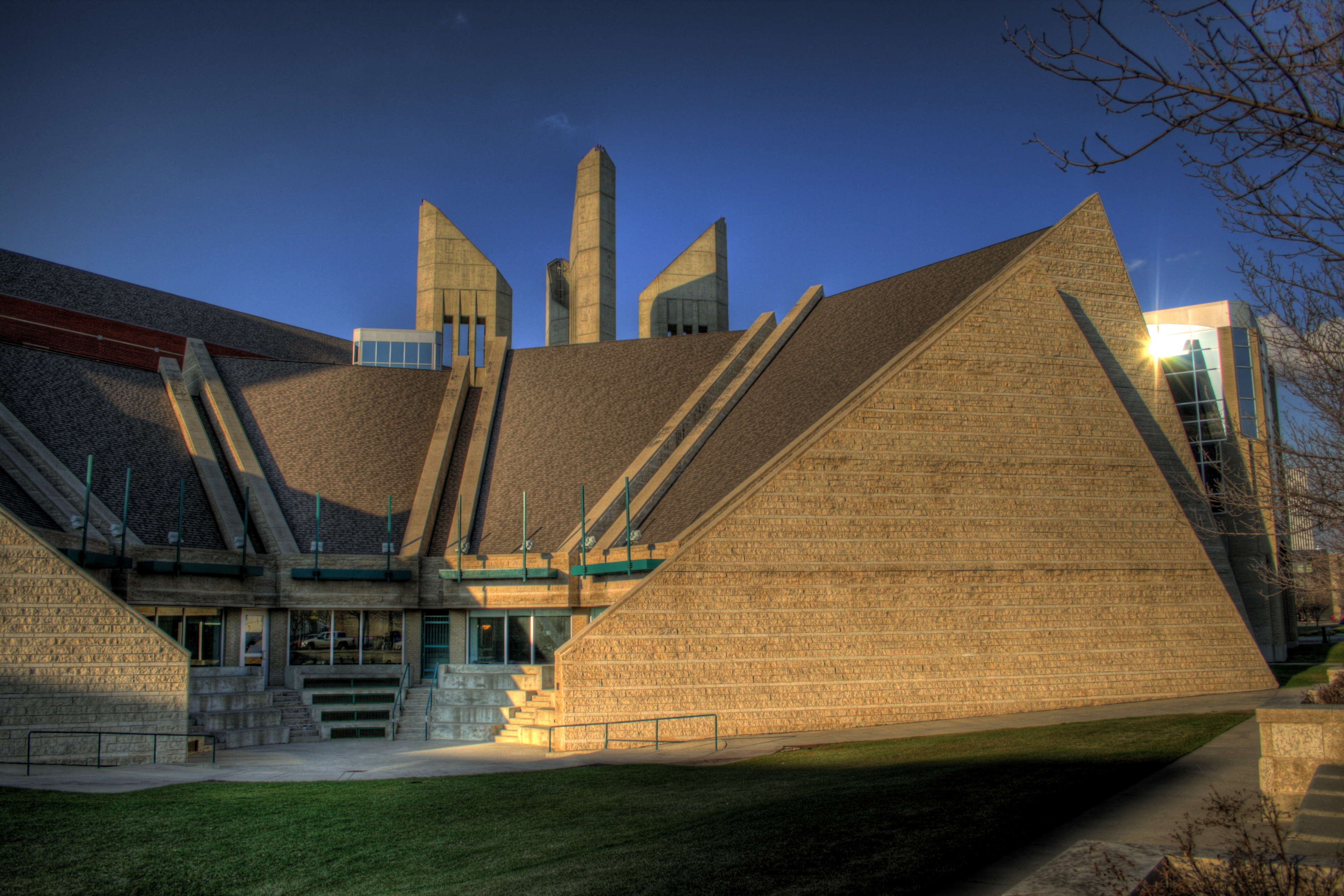 An element of the Grant MacEwan University campus in downtown Edmonton, Alberta.